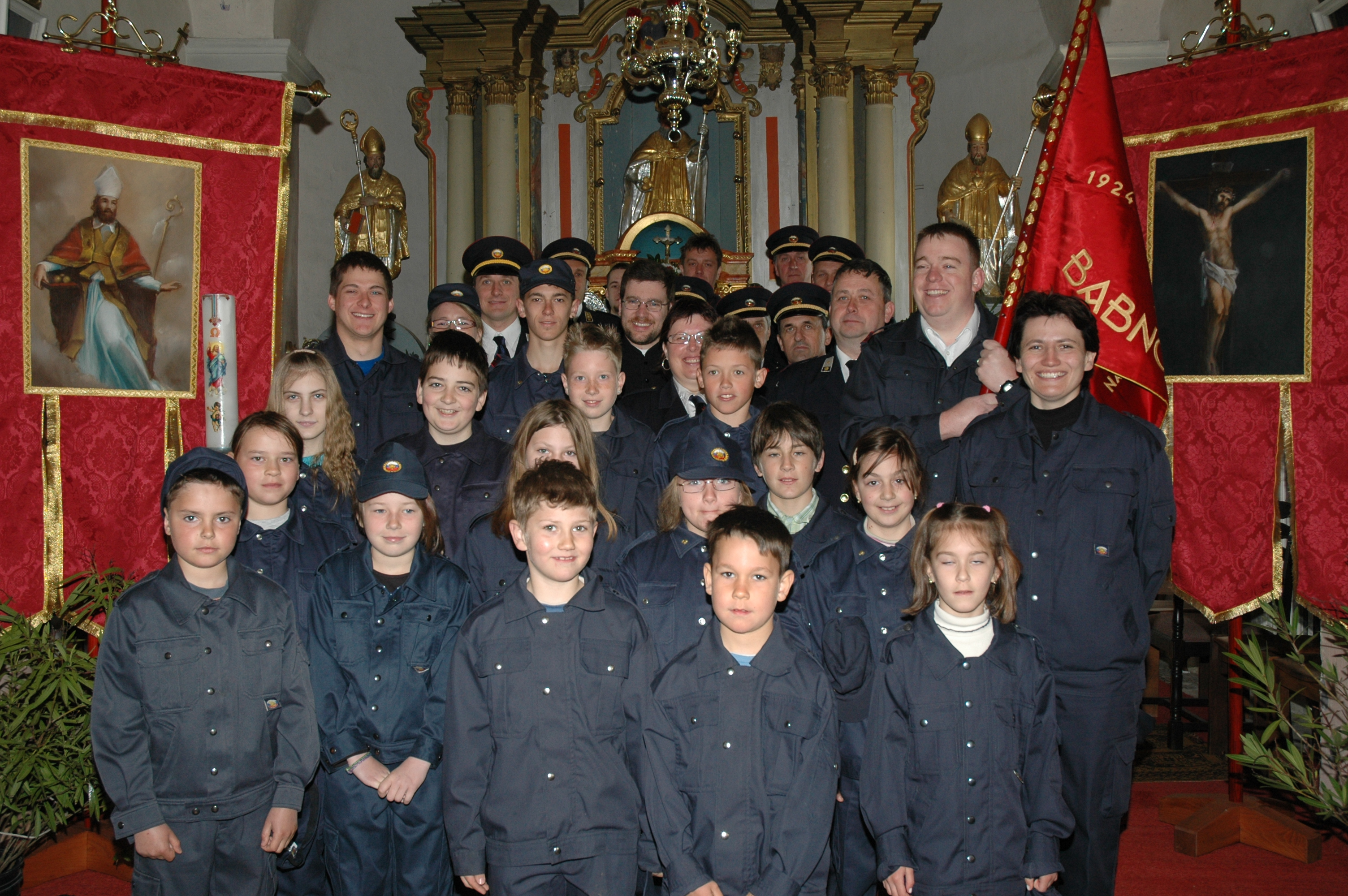 Members of the volunteer firefighting society in Babno Polje, Slovenia.